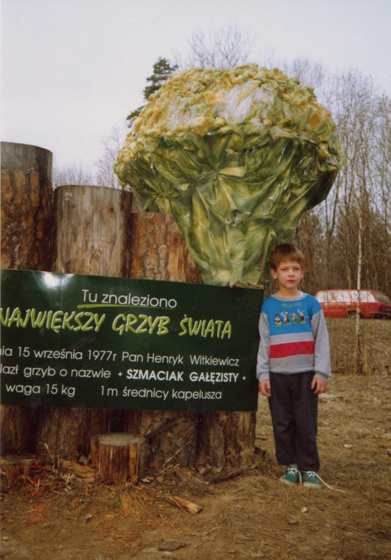 Nieistniejący już pomnik największego grzyba świata w Piotrkowicach koło Tarnowa w Małopolsce (stan około 1996)